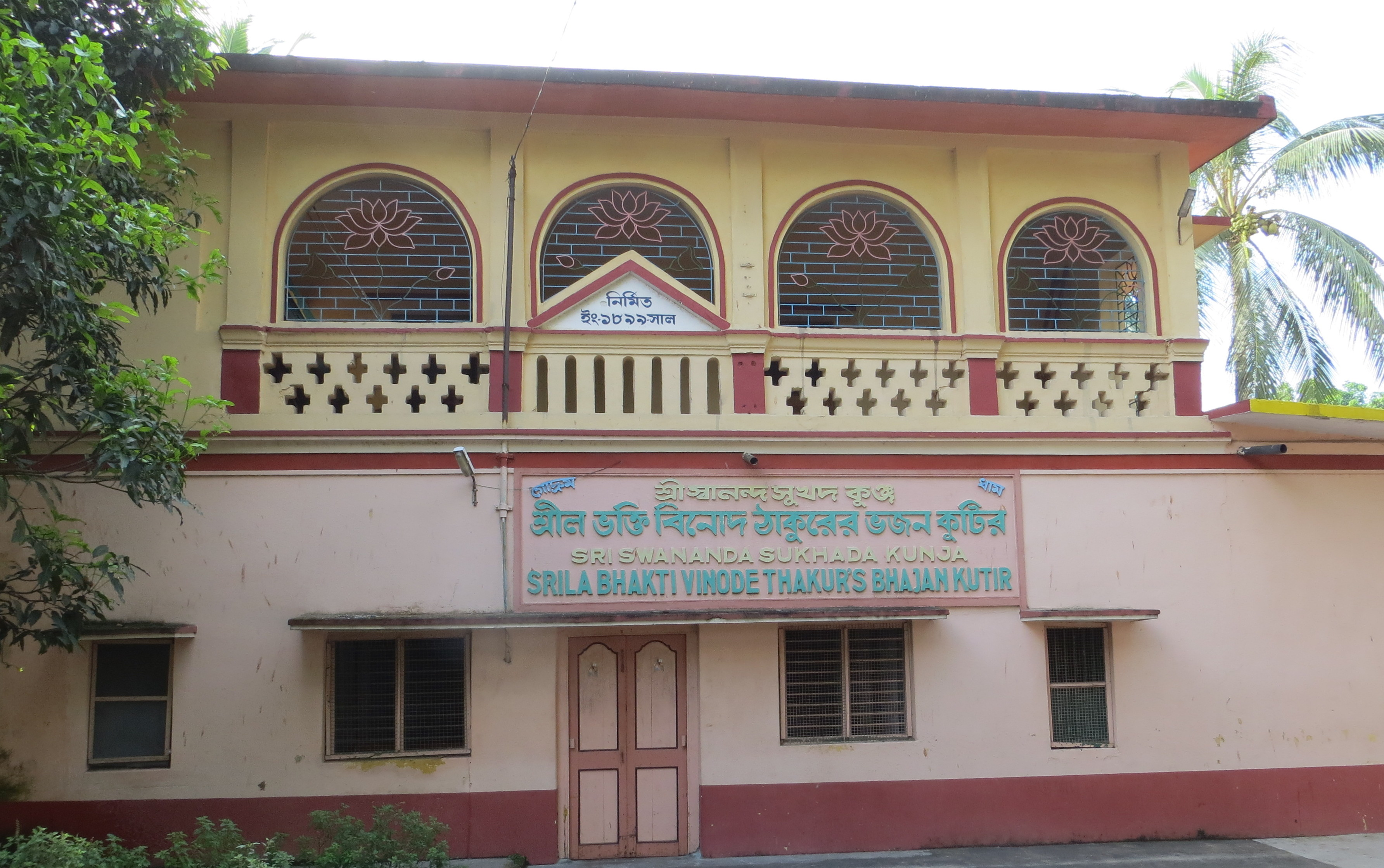 Bhaktivinoda Thakur's house in Surabhi-kunja, Mayapur, West Bengal